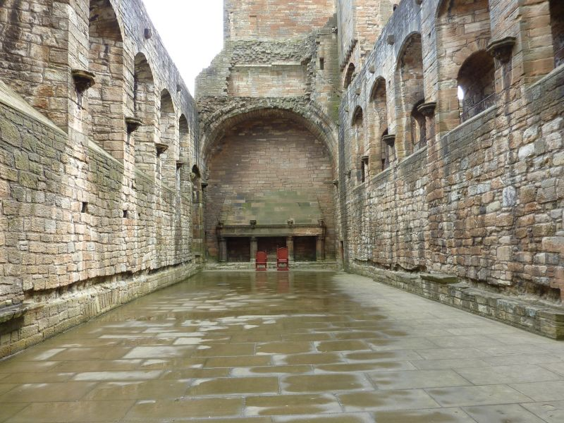 Linlithgow Palace, Scotland